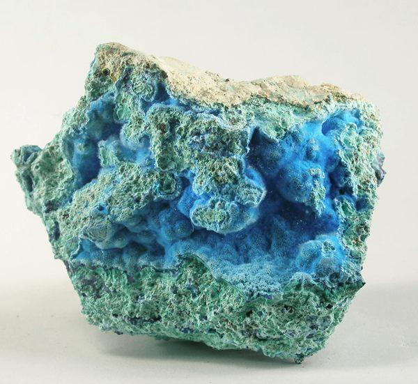 Cyanotrichite, Malachite Locality: Grand View Mine (Last Chance Mine; No. 1 Pat claim 3591; No. 5 Pat claim 3592a; No. 4 Pat claim 3592a; Canyon Copper Mine; Grand Canyon Mine), Cape Royal, Horseshoe Mesa, Grand Canyon National Park, Grandview District, Coconino County, Arizona, USA (Locality at ) Size: 8.4 x 5.9 x 6.0 cm. Cyanotrichite is an uncommon hydrated copper aluminum sulfate hydroxide found in the oxidation zone of copper ore bodies. This rich and very colorful specimen has tiny, acicular, radiating, vivid powder-blue cyanotrichite needles lining sculptural vugs in starkly contrasting, banded green malachite matrix. This fine, old piece is from the Grand View Mine of Arizona, which is in the Grand Canyon National Park and you cannot collect from there today. The last production from this mine was in 1916. Ex. Jaime Bird Collection.